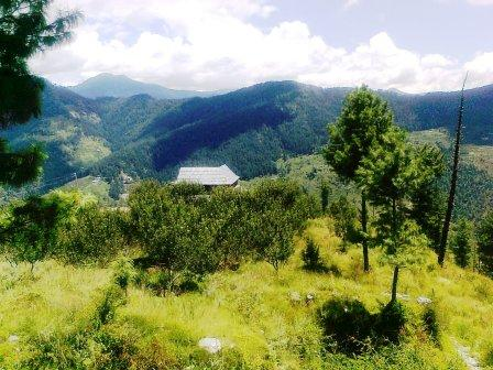 Bamta